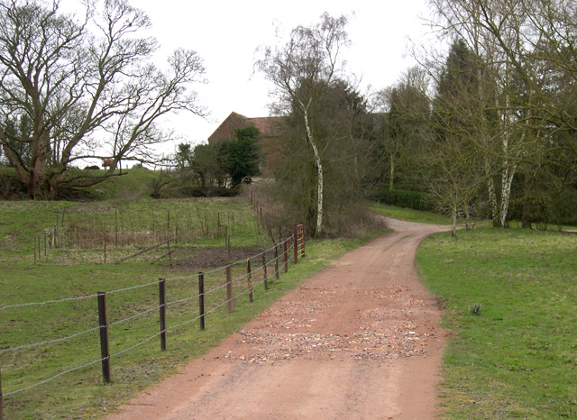 Track to Woodford Grange, Trysull, Staffordshire This track is also a public footpath leading towards South Wombourne and Swindon. The footpath leads close by Woodford Grange (visible), which (among other things) hosts a cattery. Note the reddish colour of the track - evidence of the underlying red sandstone strata.